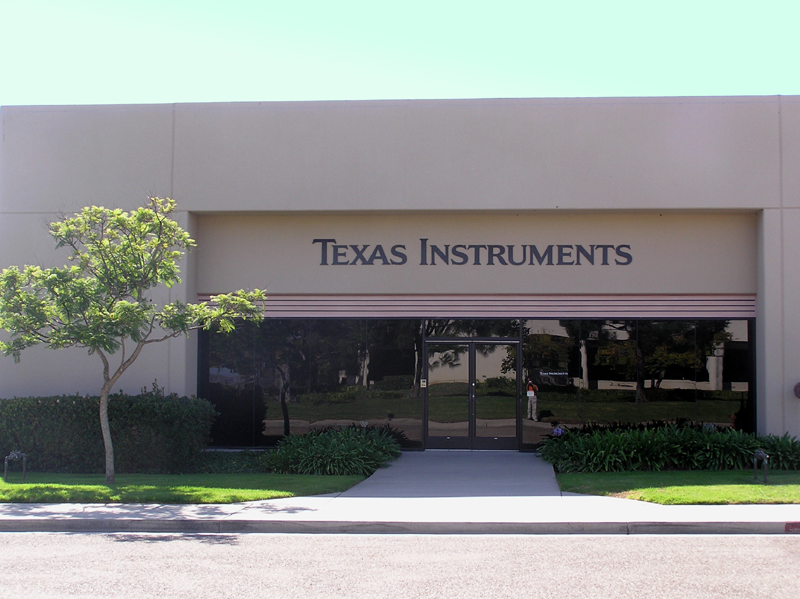 This photograph was taken by Alan Mak on September 5th, 2005 at a branch office of Texas Instrumemt at Goleta, California, USA.